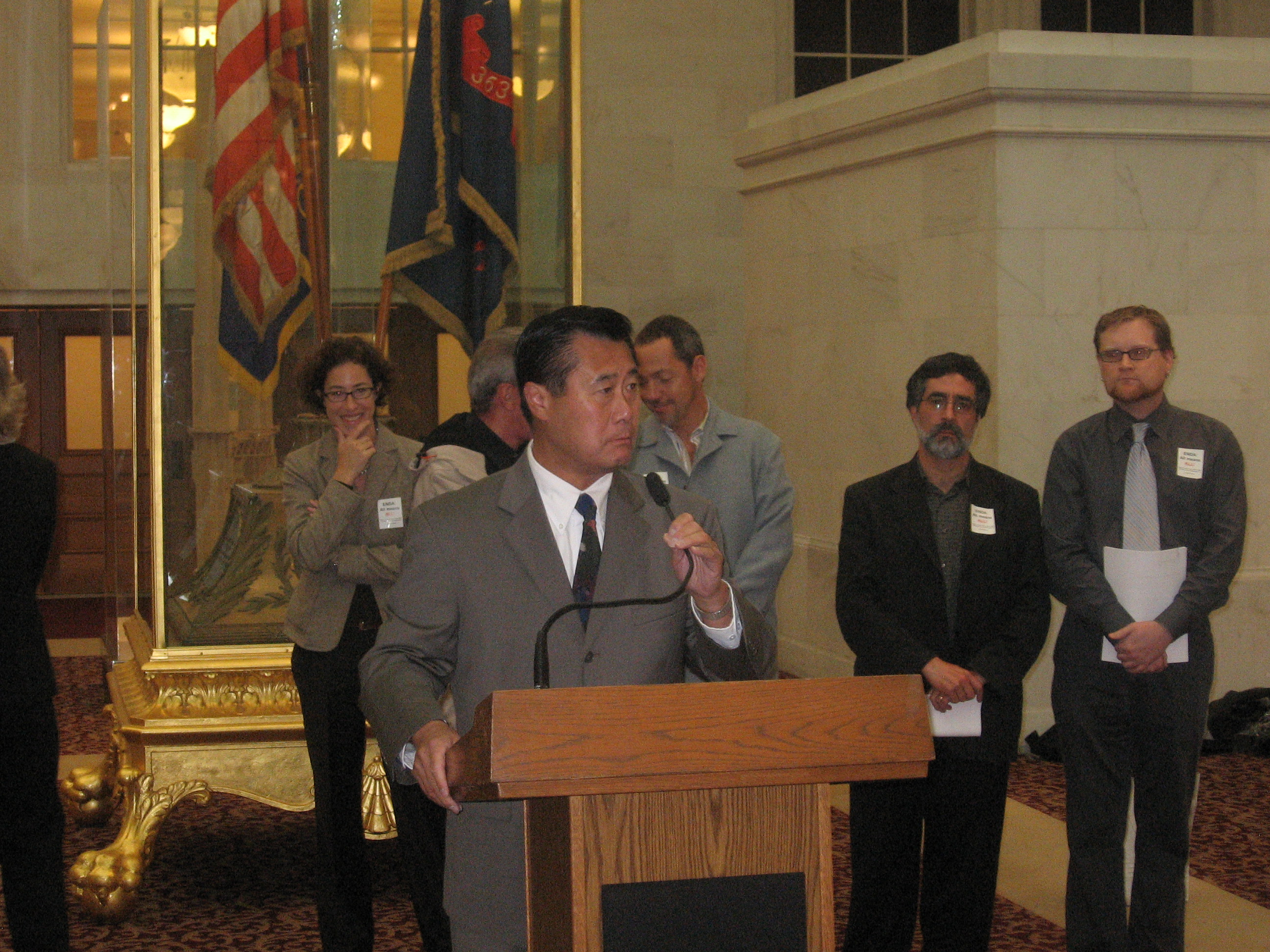 San Francisco city officials, community leaders and activists met at City Hall today to urge congress to pass a transgender-inclusive version of the and oppose any efforts to weaken it by removing gender identity. Original work offered under a creative commons license with attribution requirements. Please attribute with the phrase " Photo by Jere Keys, " Please contact me if you have questions.